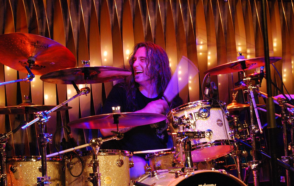 Dave Abbruzzese with THE IMF´s (Stevie Salas, Bernard Fowler, Jara Harris,) at Jazzbar BIX in Stuttgart 2009-09-19